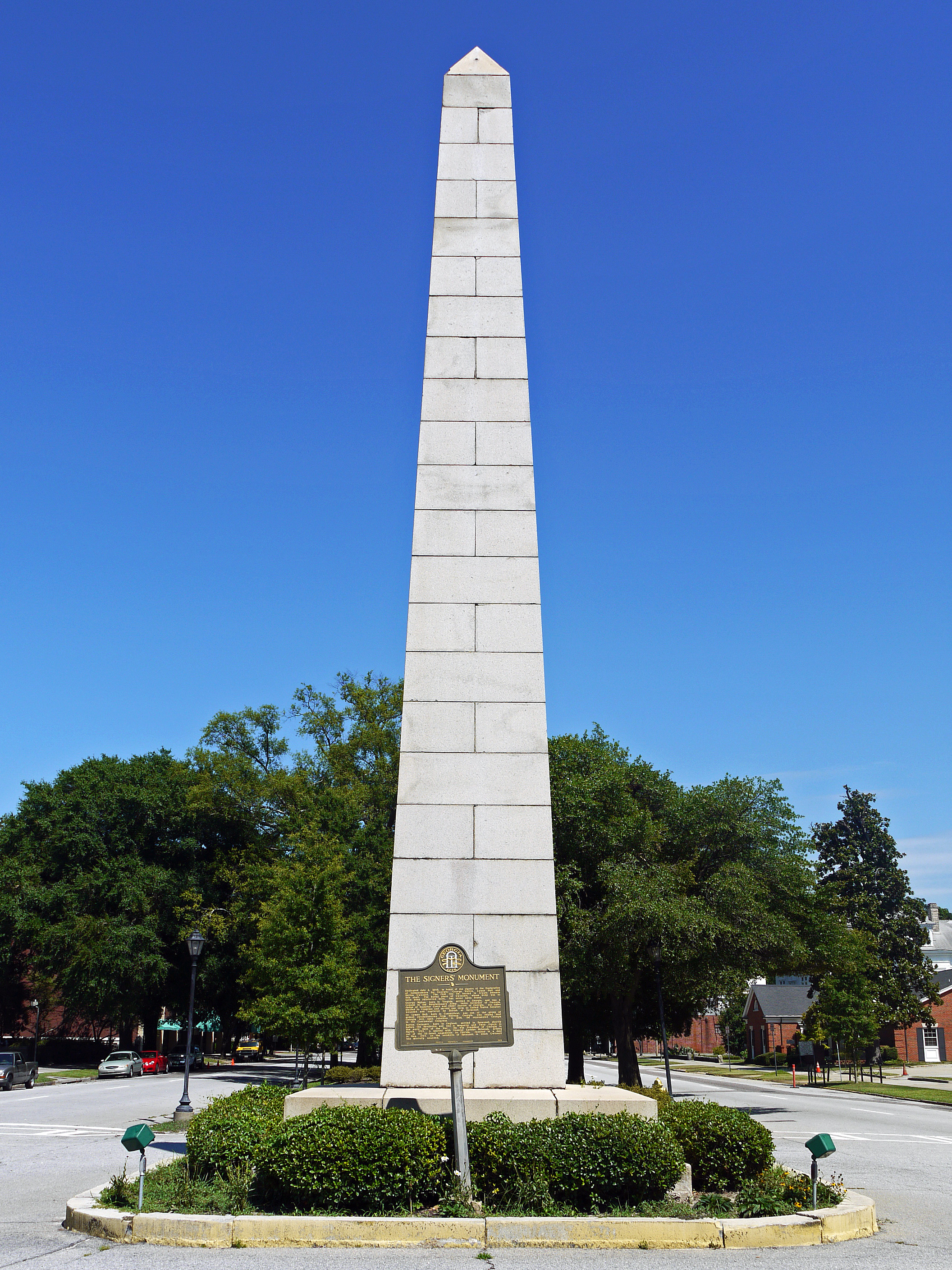 Signers Monument, downtown Augusta, Georgia, United States